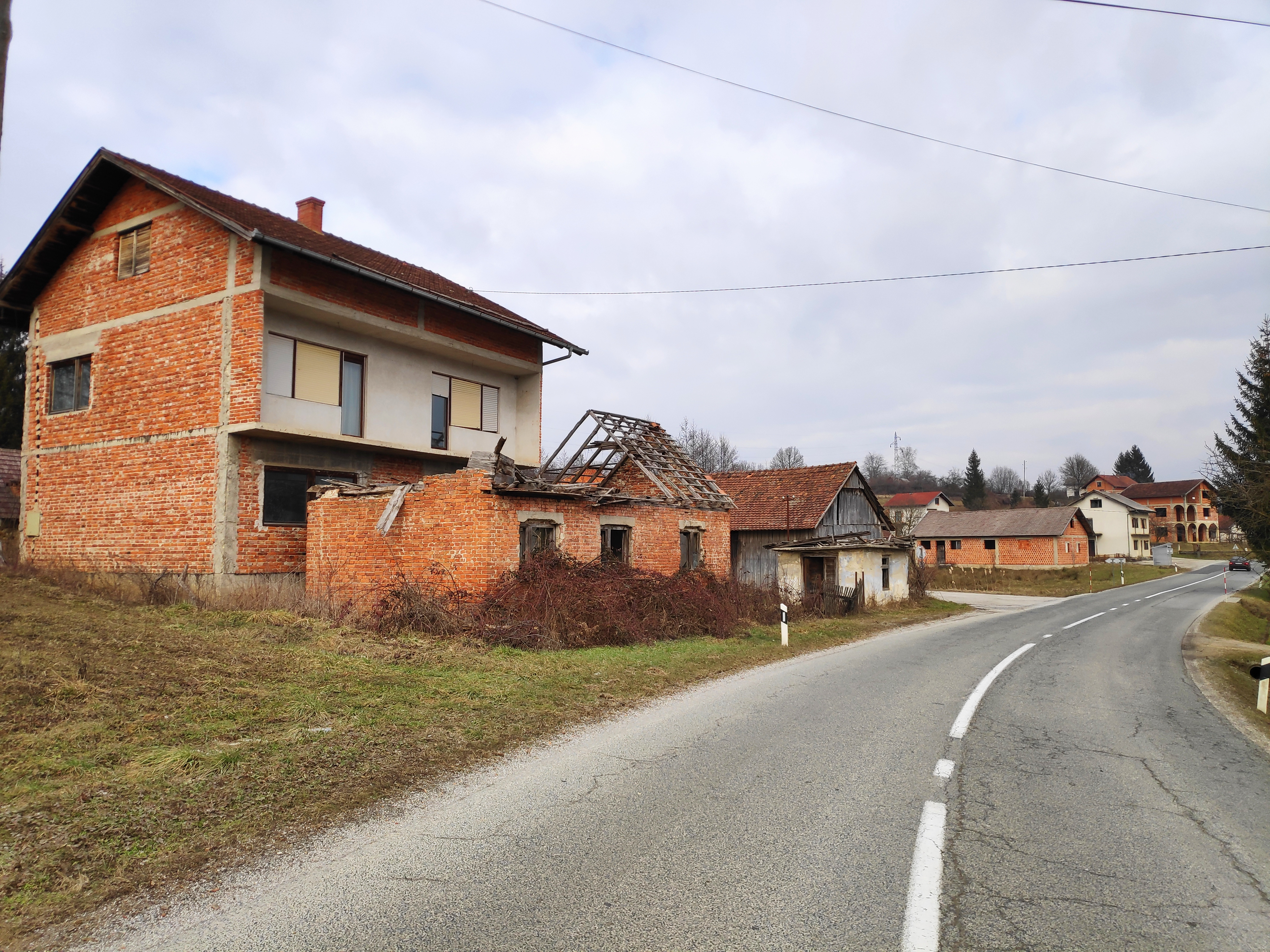 Vojišnica (Sisačko-moslavačka županija)